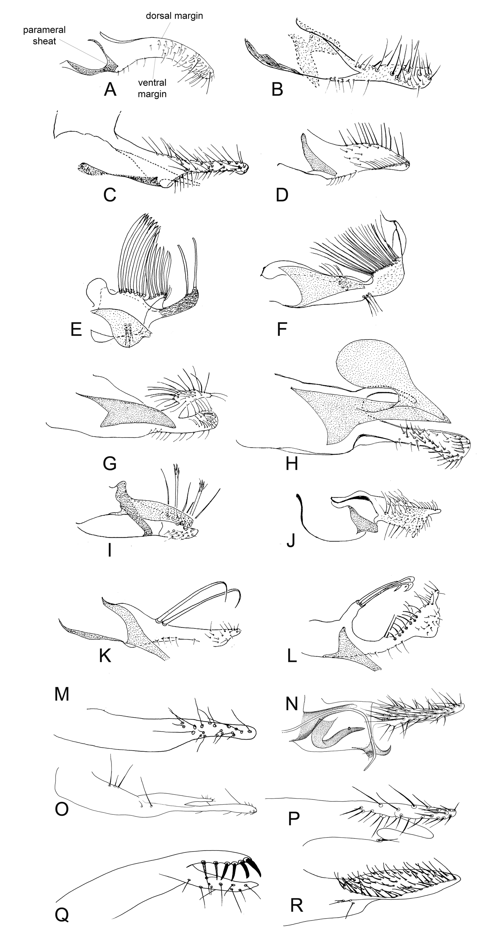 Figure 26 of paper Lateral view of paramere and parameral sheath of Phlebotominae. (A) Migonemyia (Blancasmyia) gorbitzi; (B) Evandromyia (Aldamyia) walkeri; (C) Lutzomyia (Helcocyrtomyia) guderiani; (D) Psathyromyia (Psathyromyia) lanei; (E) Psychodopygus panamensis; (F) Psychodopygus chagasi; (G) Trichopygomyia longispina; (H) Trichopygomyia dasypodogeton; (I) Viannamyia tuberculata; (J) Pressatia triacantha; (K) Lutzomyia (Lutzomyia) longipalpis; (L) Lutzomyia (Lutzomyia) dispar; (M) Sergentomyia (Sergentomyia) dentate; (N) Phlebotomus (Legeromyia) multihamatus; (O) Idiophlebotomus padillarum; (P) Phlebotomus (Euphlebotomus) barguesae; (Q) Parvidens heishi; (R) Phlebotomus (Paraphlebotomus) andrejevi.